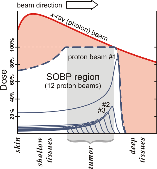 Thematic diagram showing dose as a function of depth for overlay of proton radiotherapy and x-ray radiotherapy to facilitate a comparison of the two radiotherapy methods.